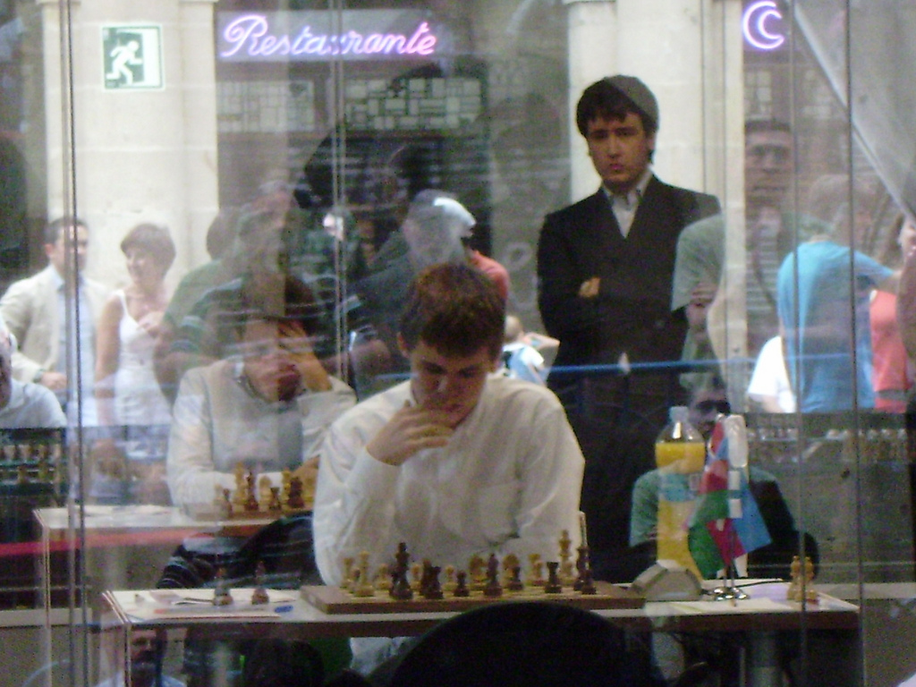 Teimour Radjabov and Magnus Carlsen in Bilbao